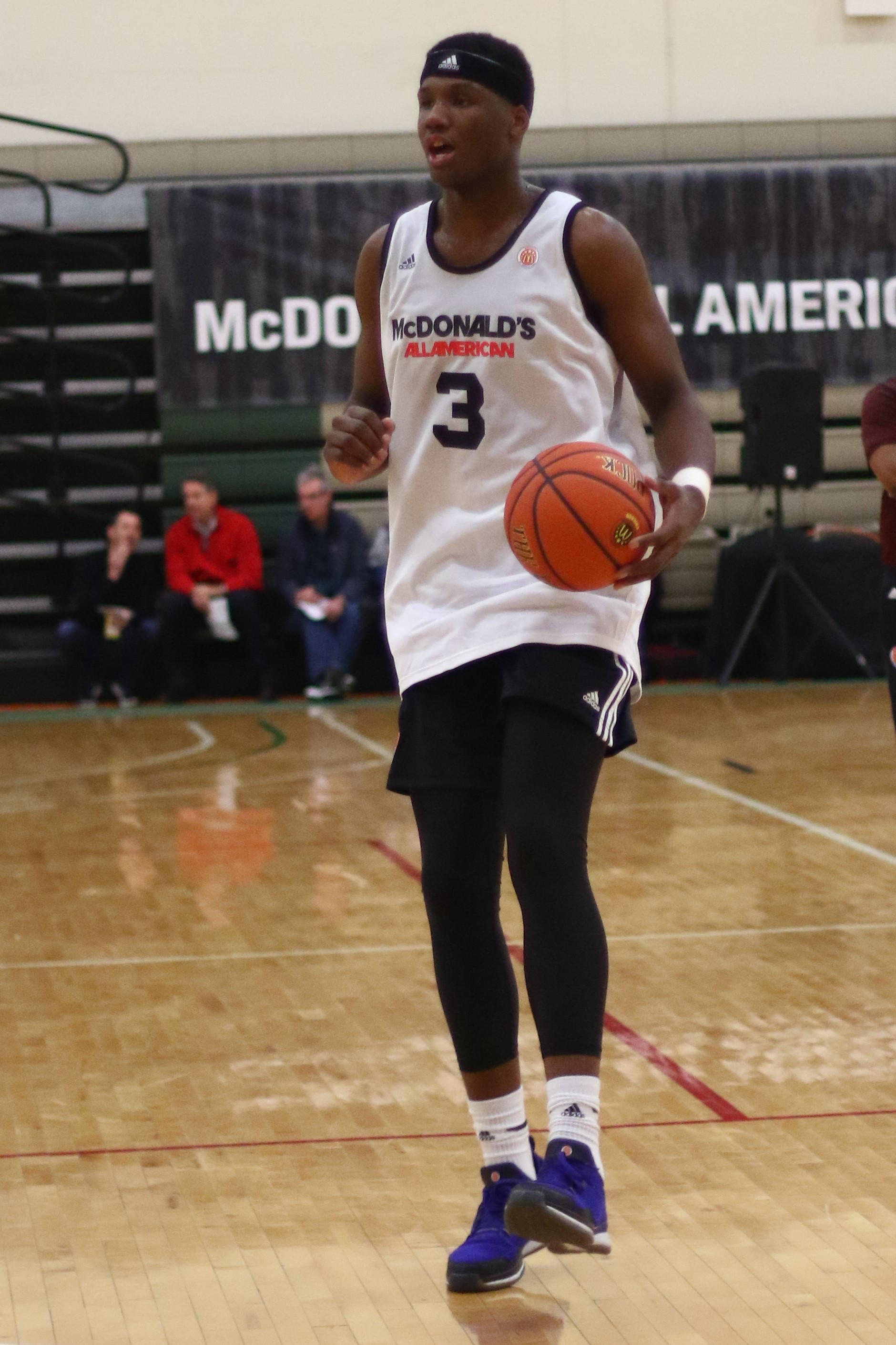 Carlton Bragg in the w:2015 McDonald's All-American Boys Game closed practice